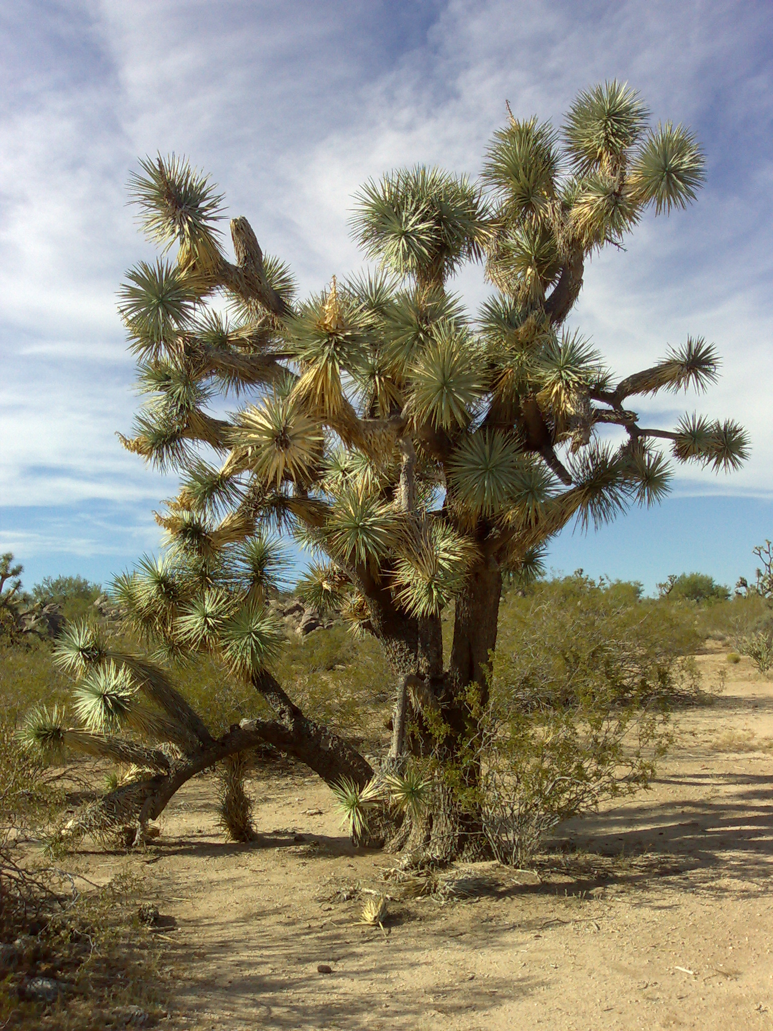 Joshua Tree (Yucca brevifolia) at the Joshua Forest Scenic Road, Arizona, USA.